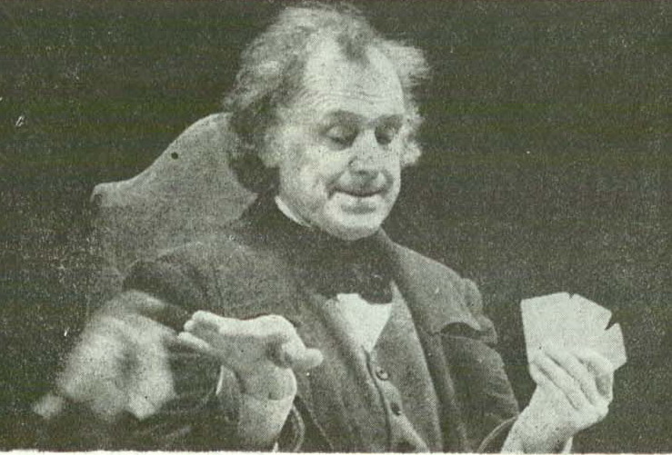 Soviet actor Inokenti Smoktunovski